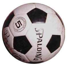 Spalding FootLoose(tm) Soccer Ball.